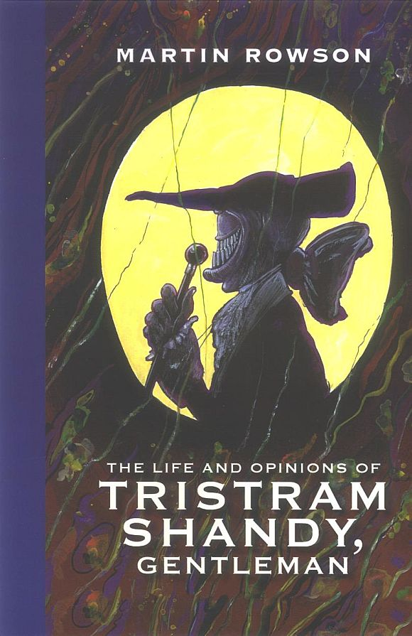 The cover of Martin Rowson's graphic novel reworking of The Life and Opinions of Tristram Shandy, Gentleman.